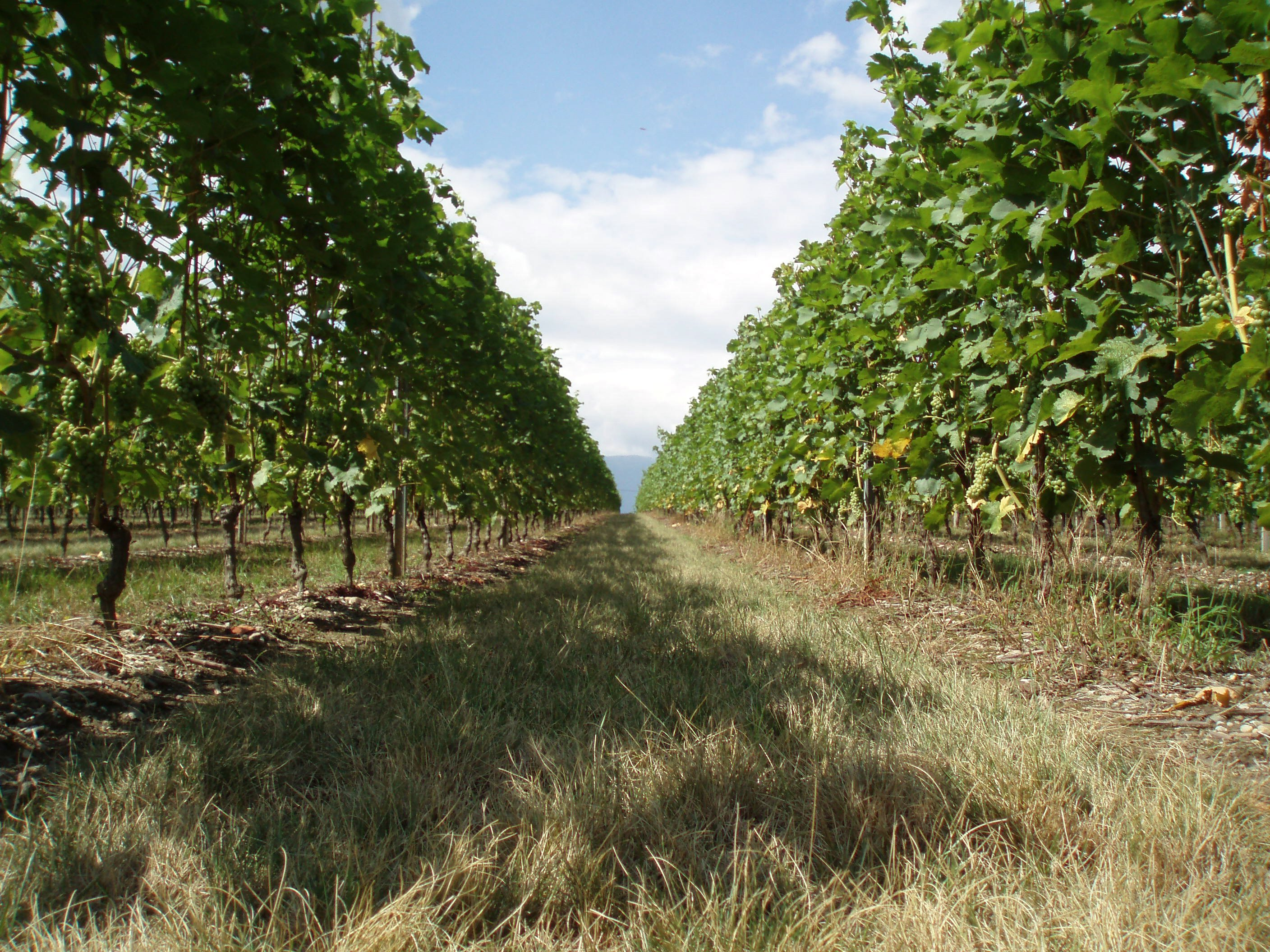 A grapvevine near the village of Sézenove in the Canton of Geneva.